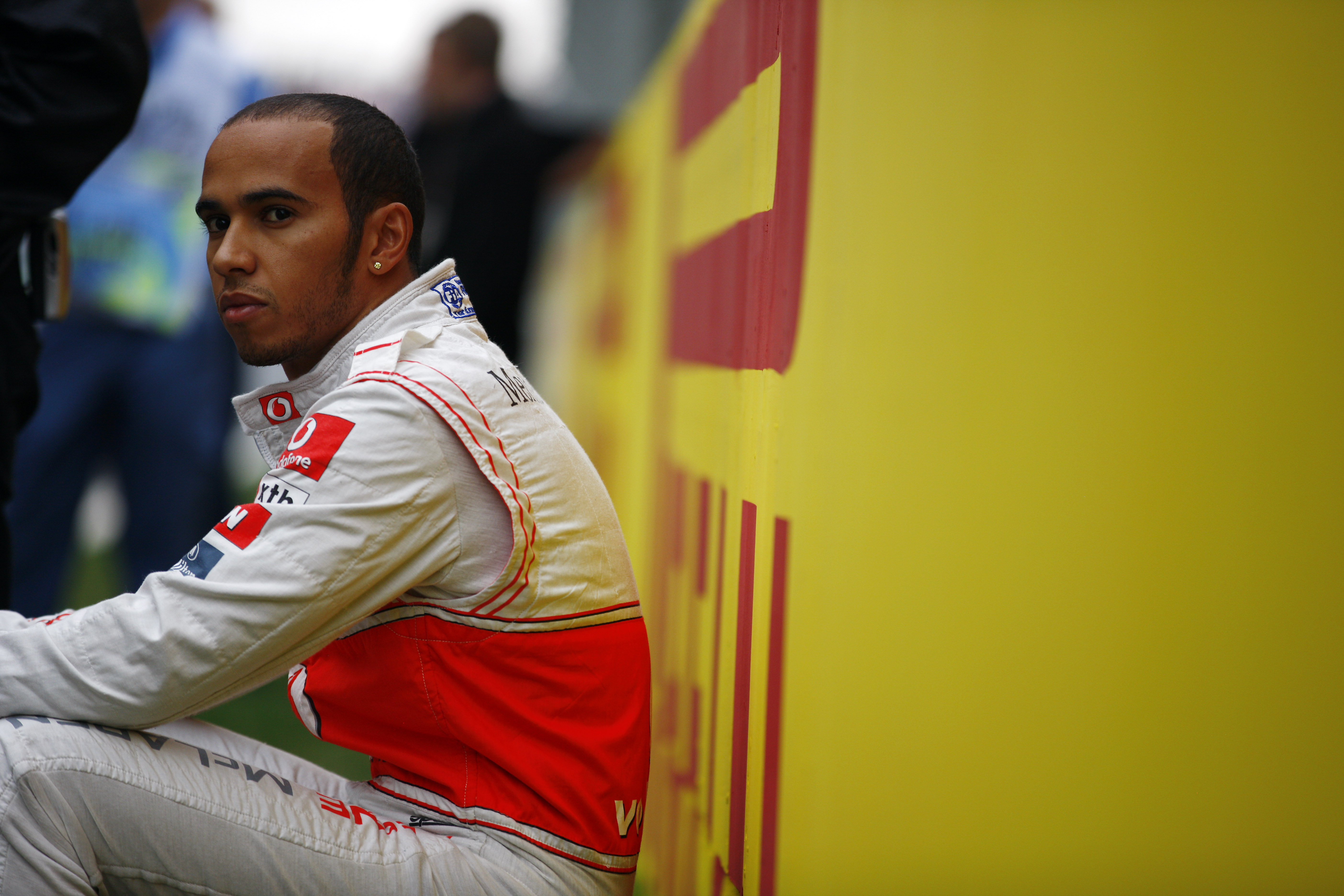 Lewis Hamilton at the 2011 Korean Grand Prix, Korea International Circuit, Yeongam-Gun,South Korea.